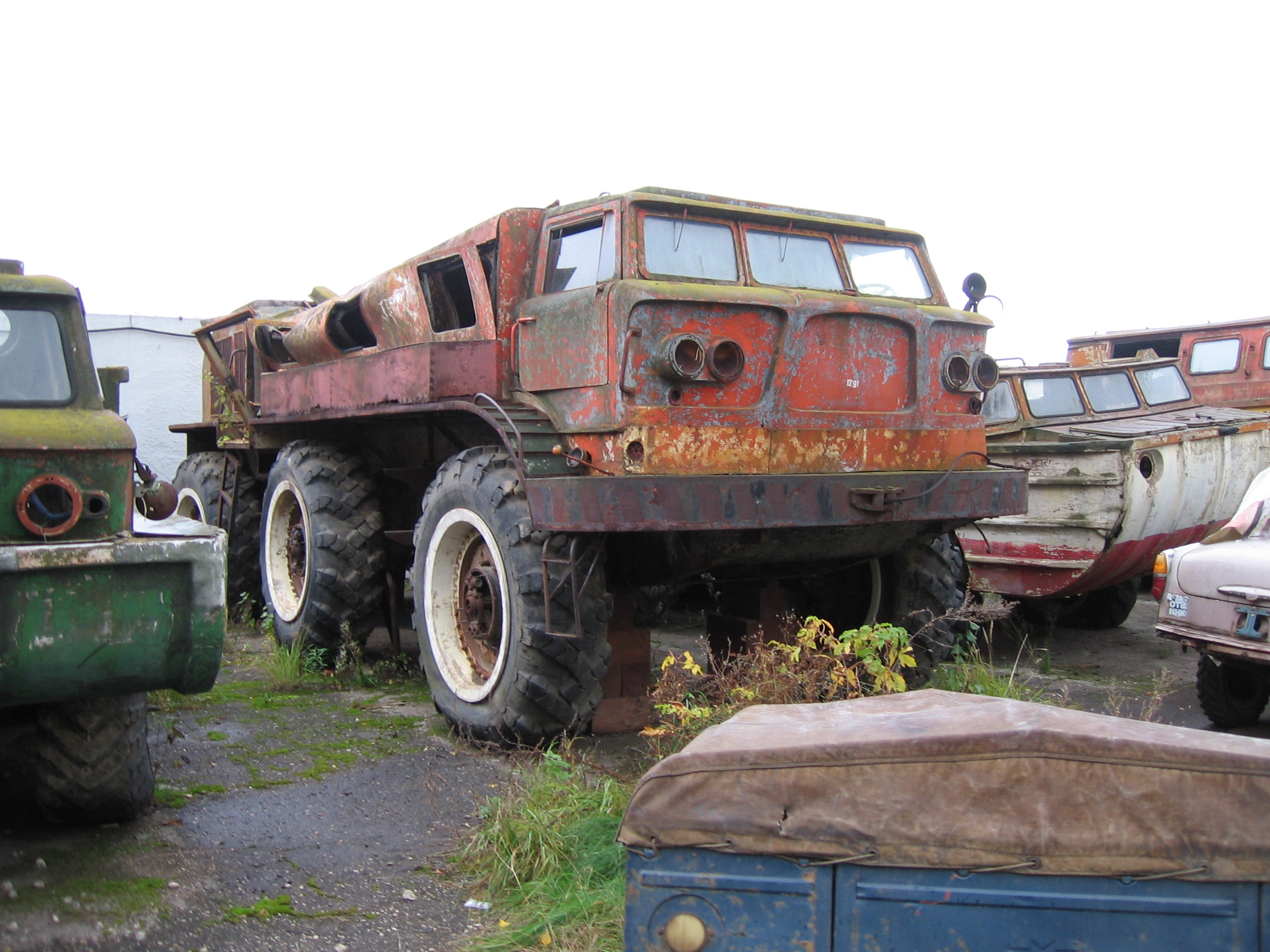 ZIL-E-167